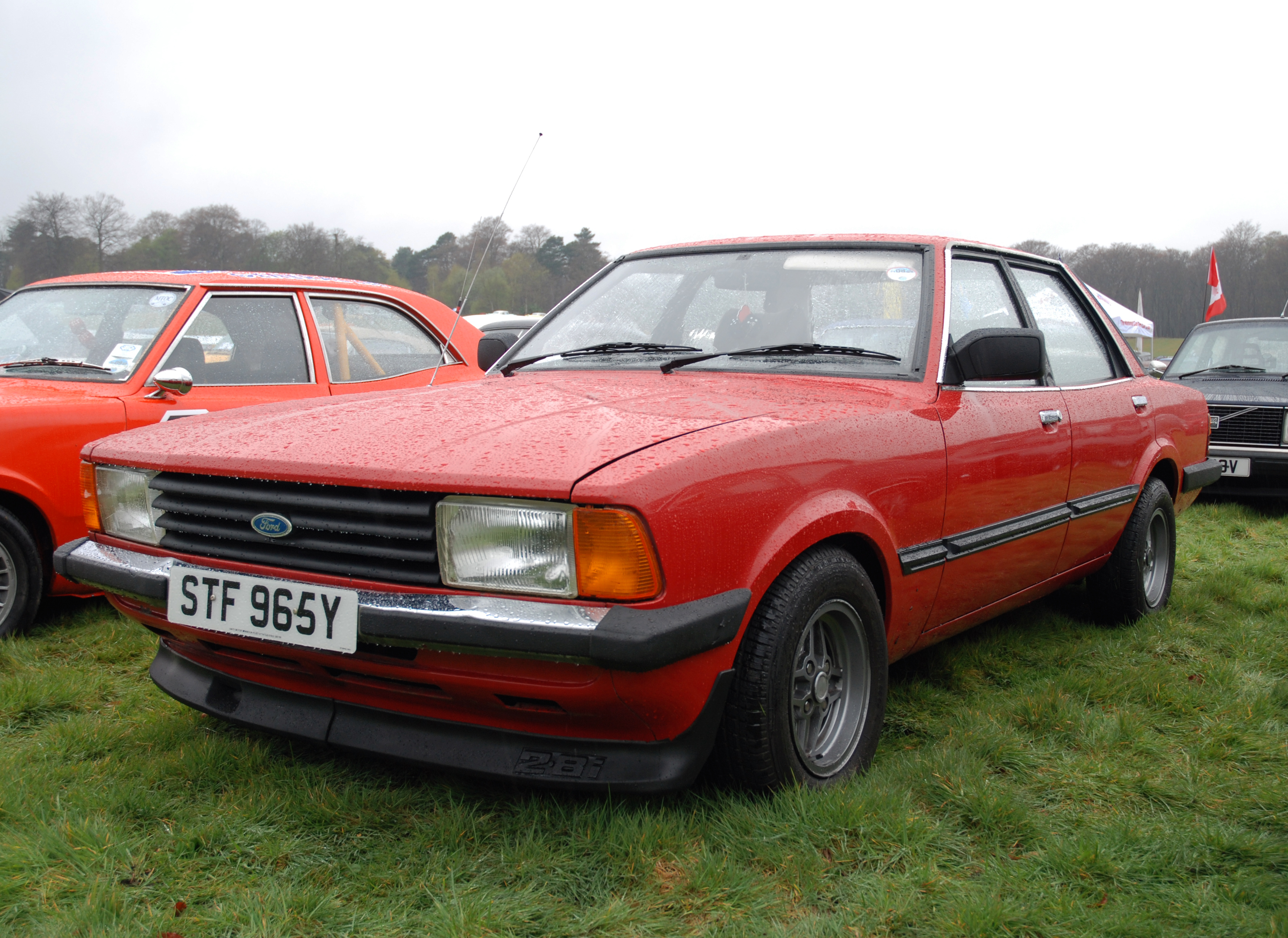 Wheels Day,Apr 2009